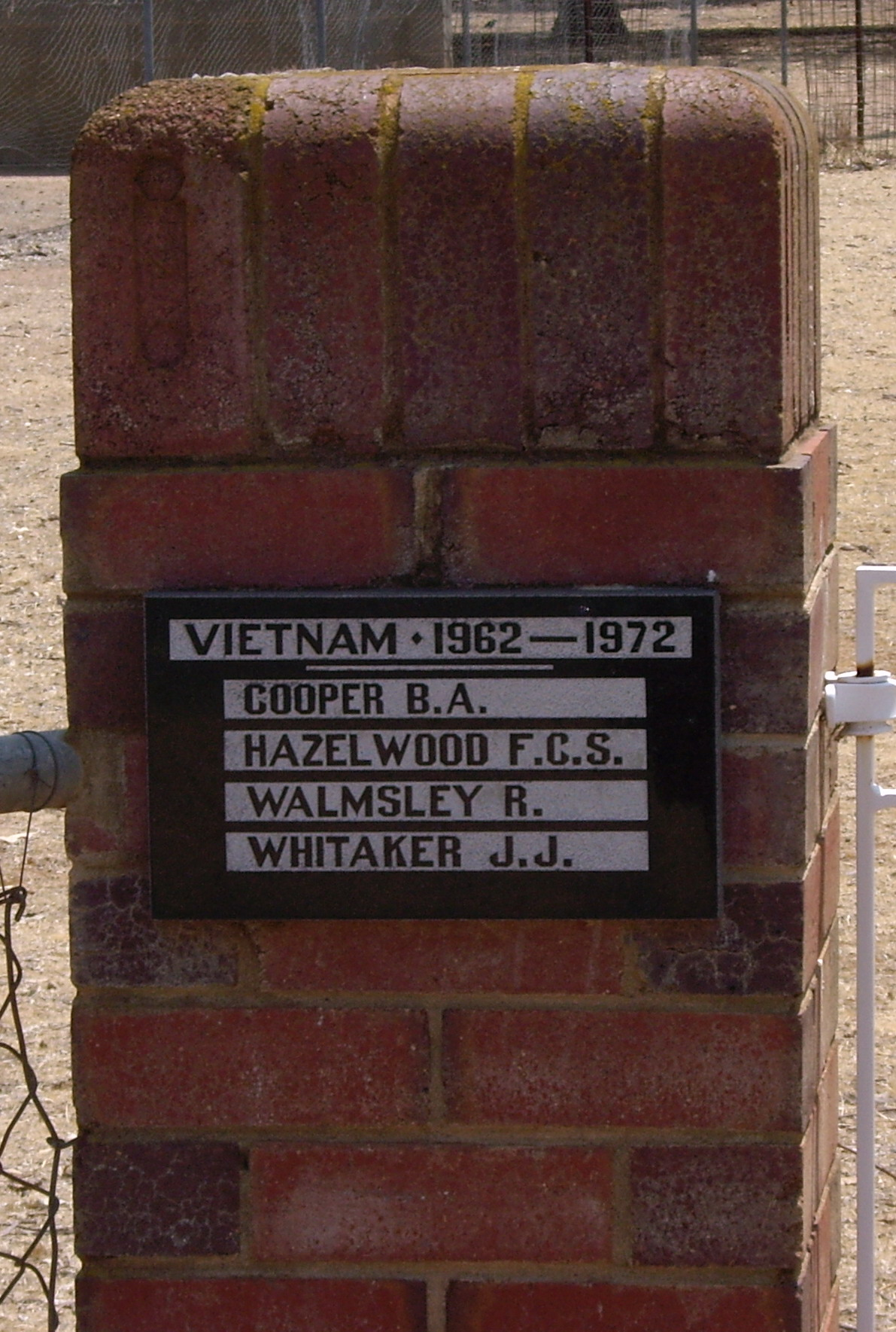 Eurongilly Vietnam War Honour Roll